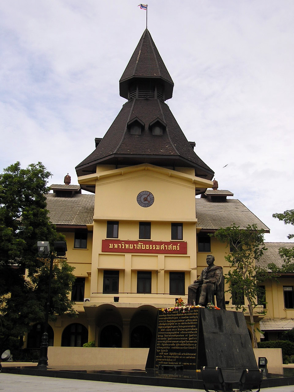 Dome and Pridi Phanomyong monument at Thammasat University, Bangkok, Thailand